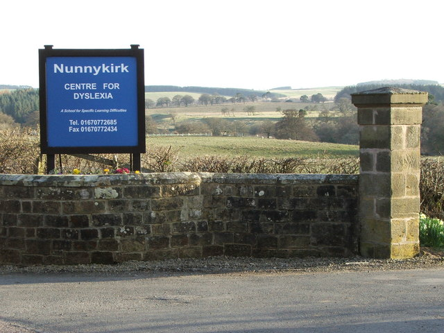 Nunnykirk School Entrance to Nunnykirk Specialist School